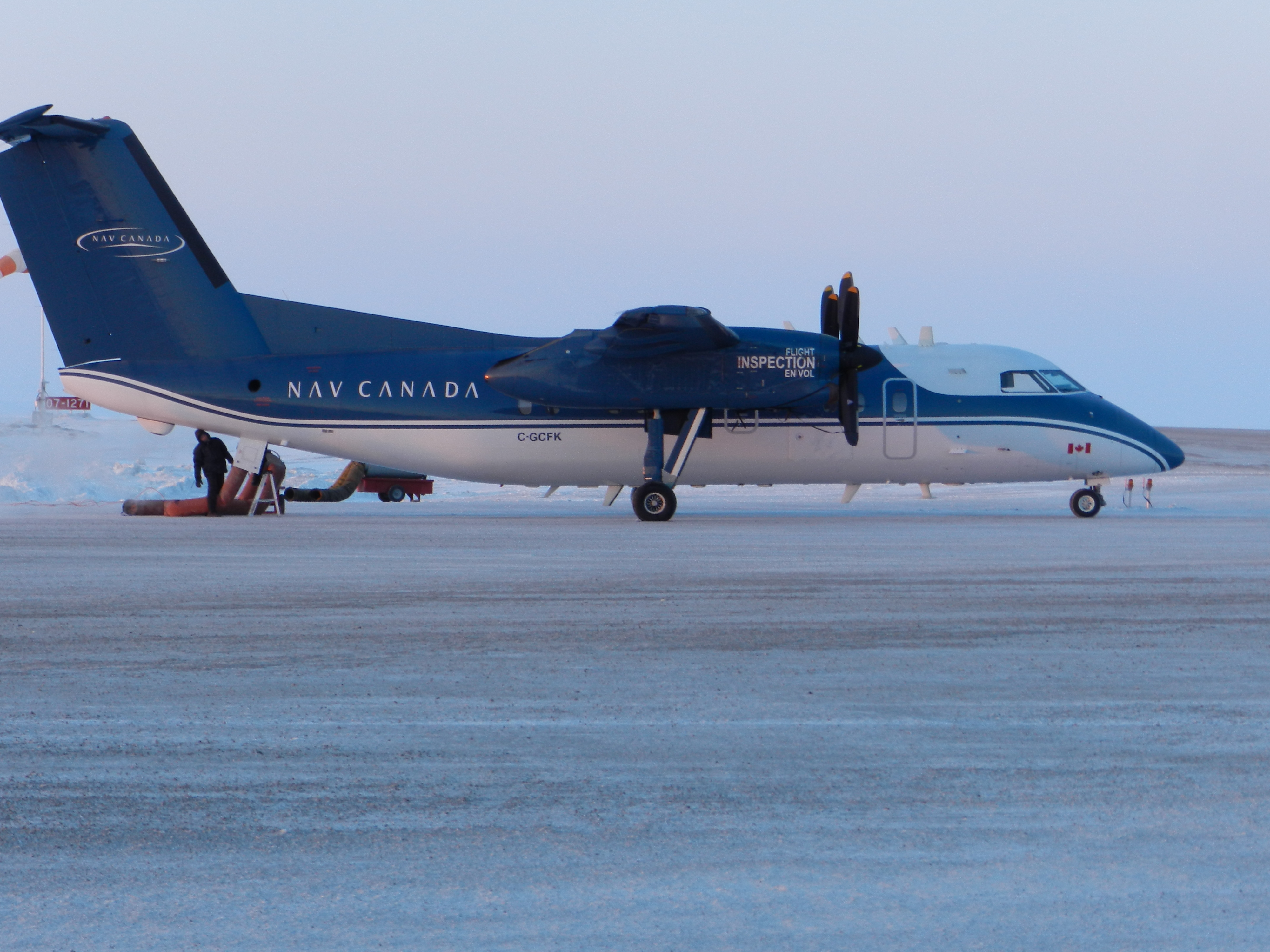 C-GCFK Dash 8 NAV CANADA at Cambridge Bay Airport